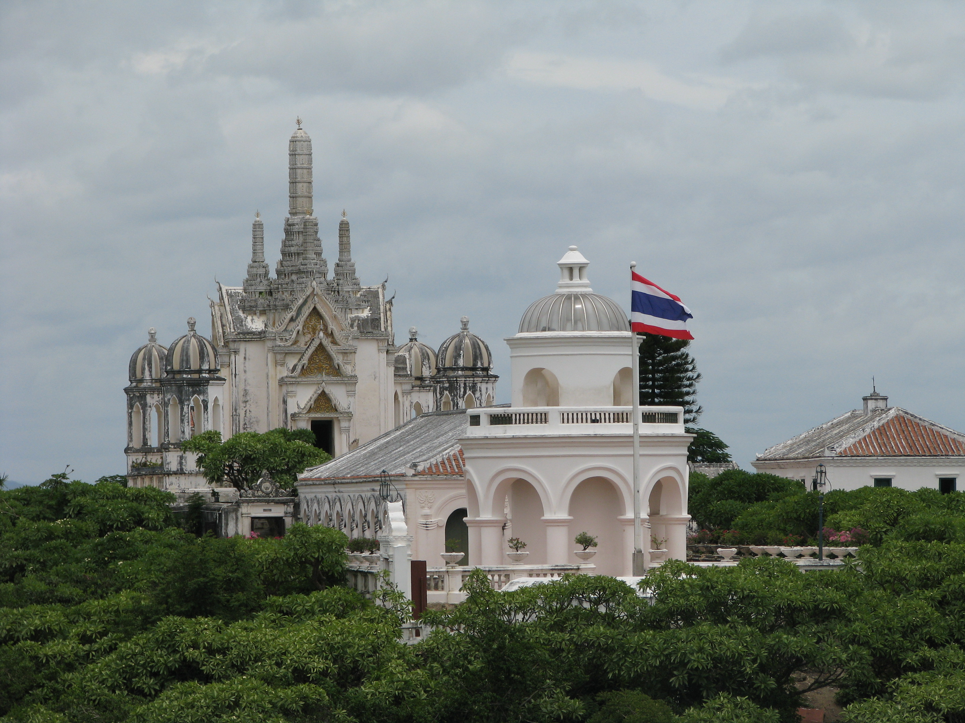 A view from the top.